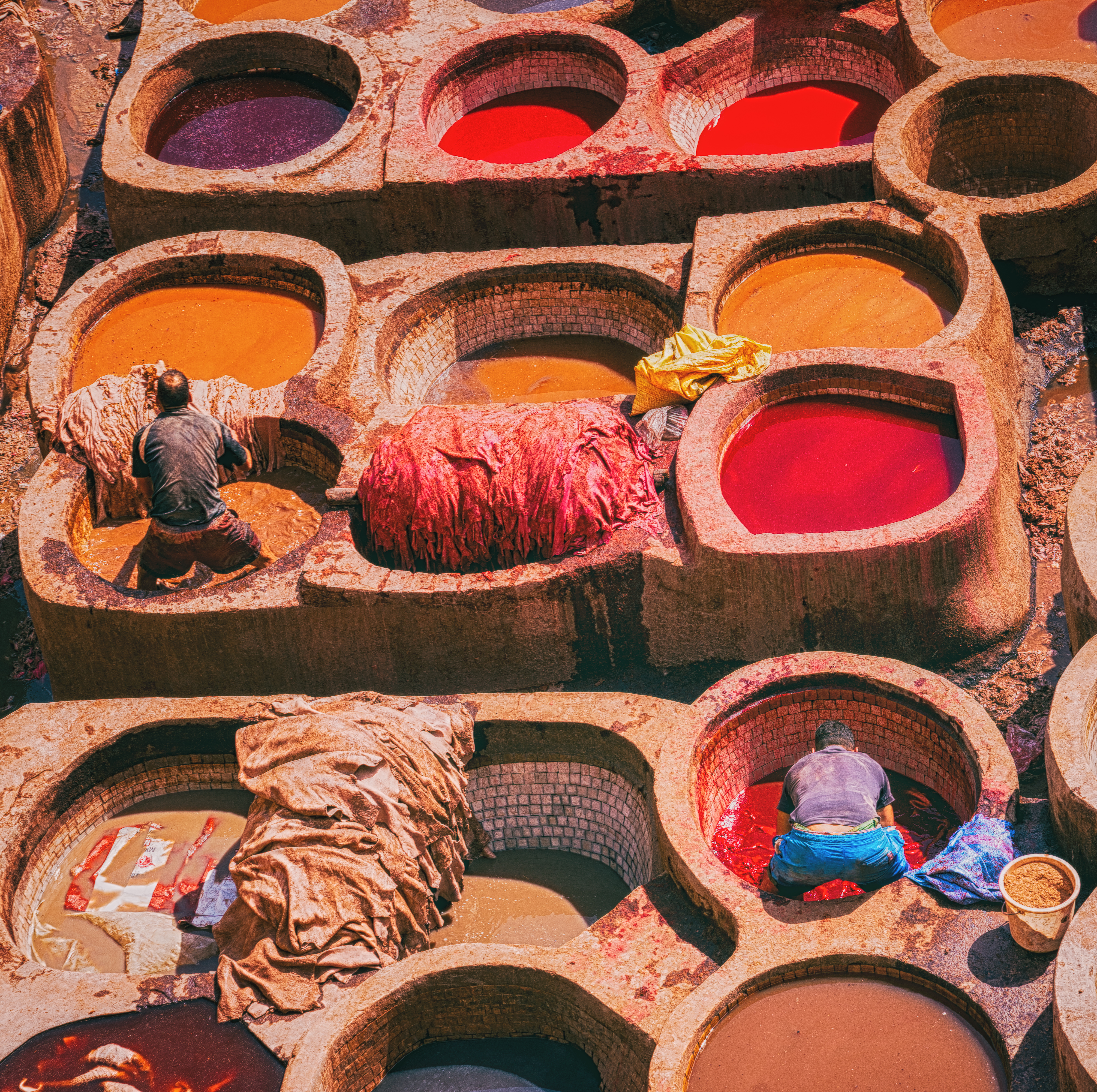 This is an image of "African people at work" from Morocco